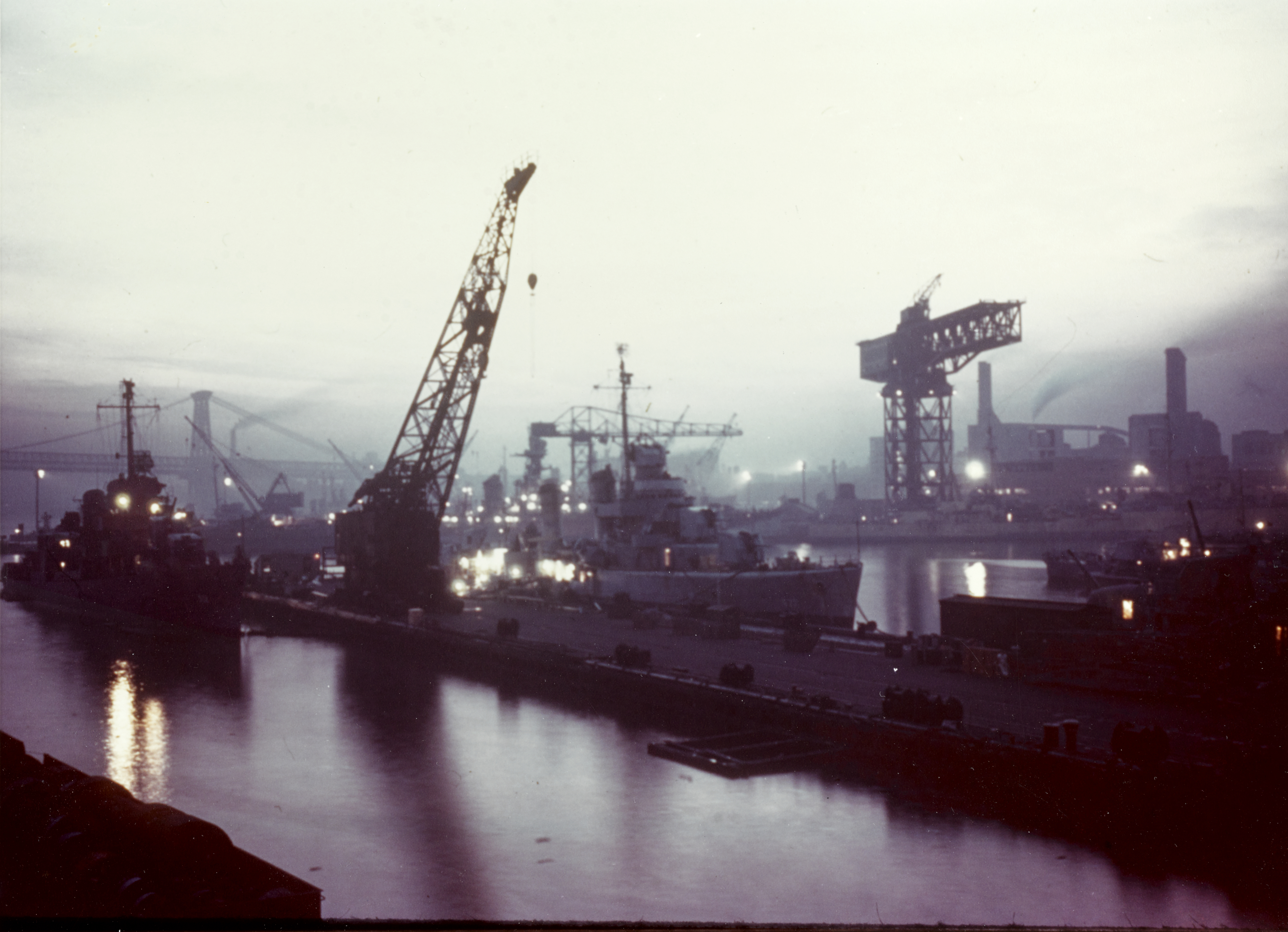 Lights are turned on as night falls over the docks of the U.S. New York Naval Shipyard, Brooklyn, New York (USA), circa June-September 1943. The ship in the center, just beyond the crane, is the destroyer USS Gherardi (DD-637). USS Luce (DD-522) is at left.